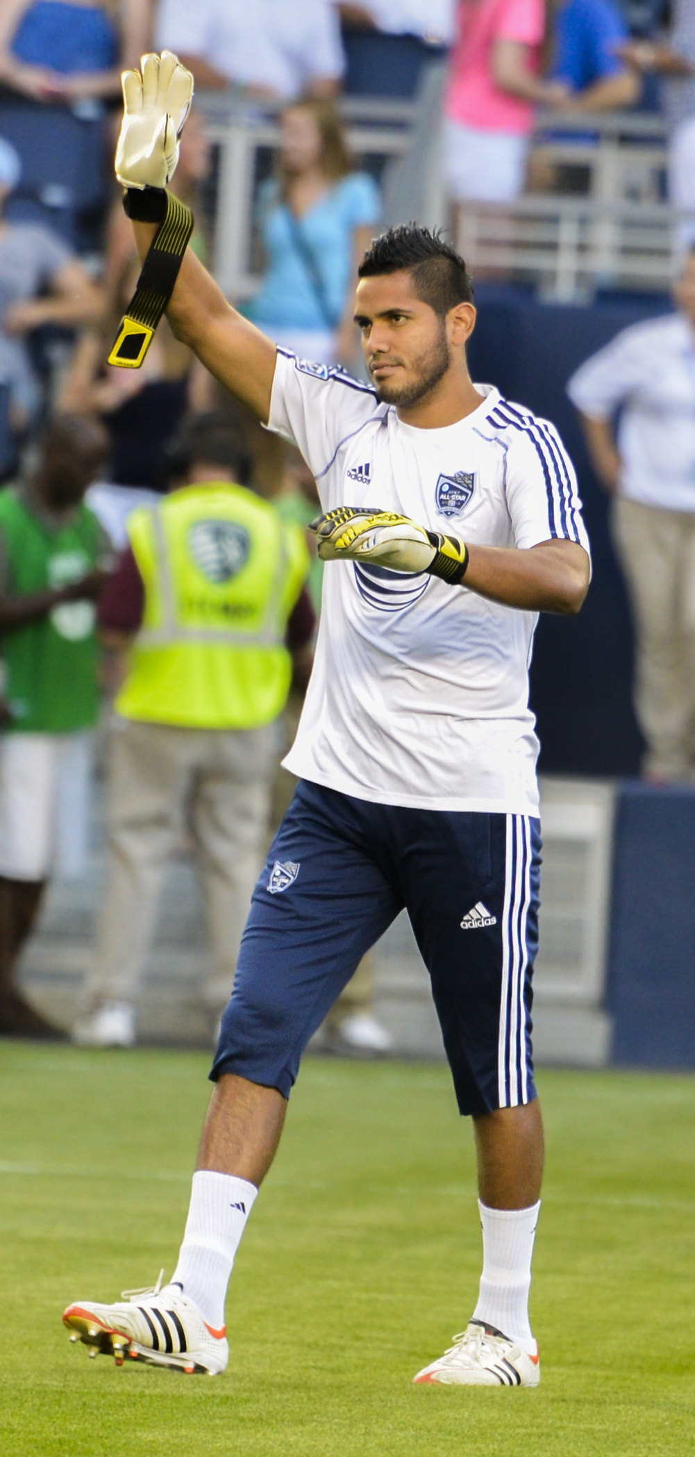 Raul Fernandez, FC Dallas Goalkeeper, warming up at the MLS All Star game at Sporting Park, Kansas City, Kansas on July 31st, 2013.